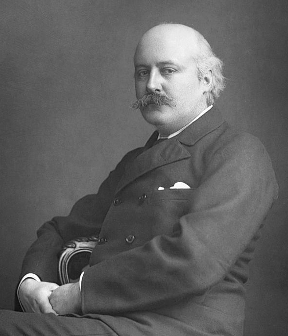 (Charles) Hubert (Hastings) Parry (1848-1918) English composer and Director of the Royal College of Music from 1894 until his death. From The Cabinet Portrait Gallery (London, 1890-1894)